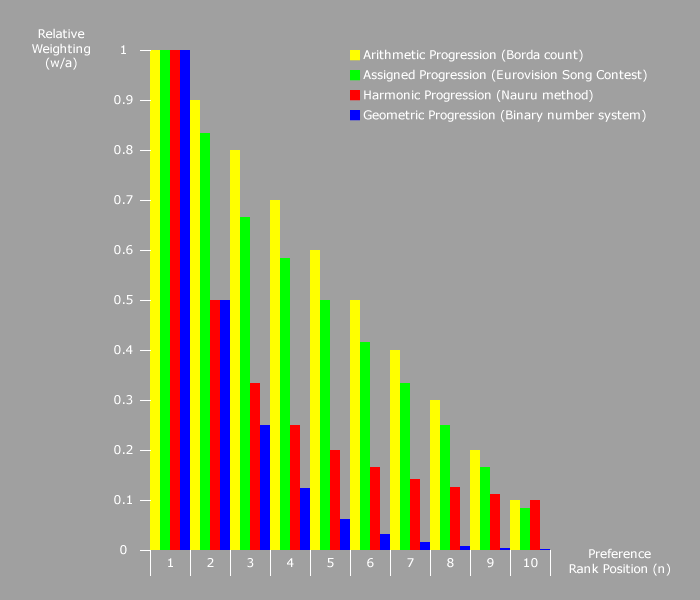 File is a graph of relative weightings against preference rank order for four positional voting electoral systems; namely Borda count, Binary number system, Nauru method and the Eurovision Song Contest.